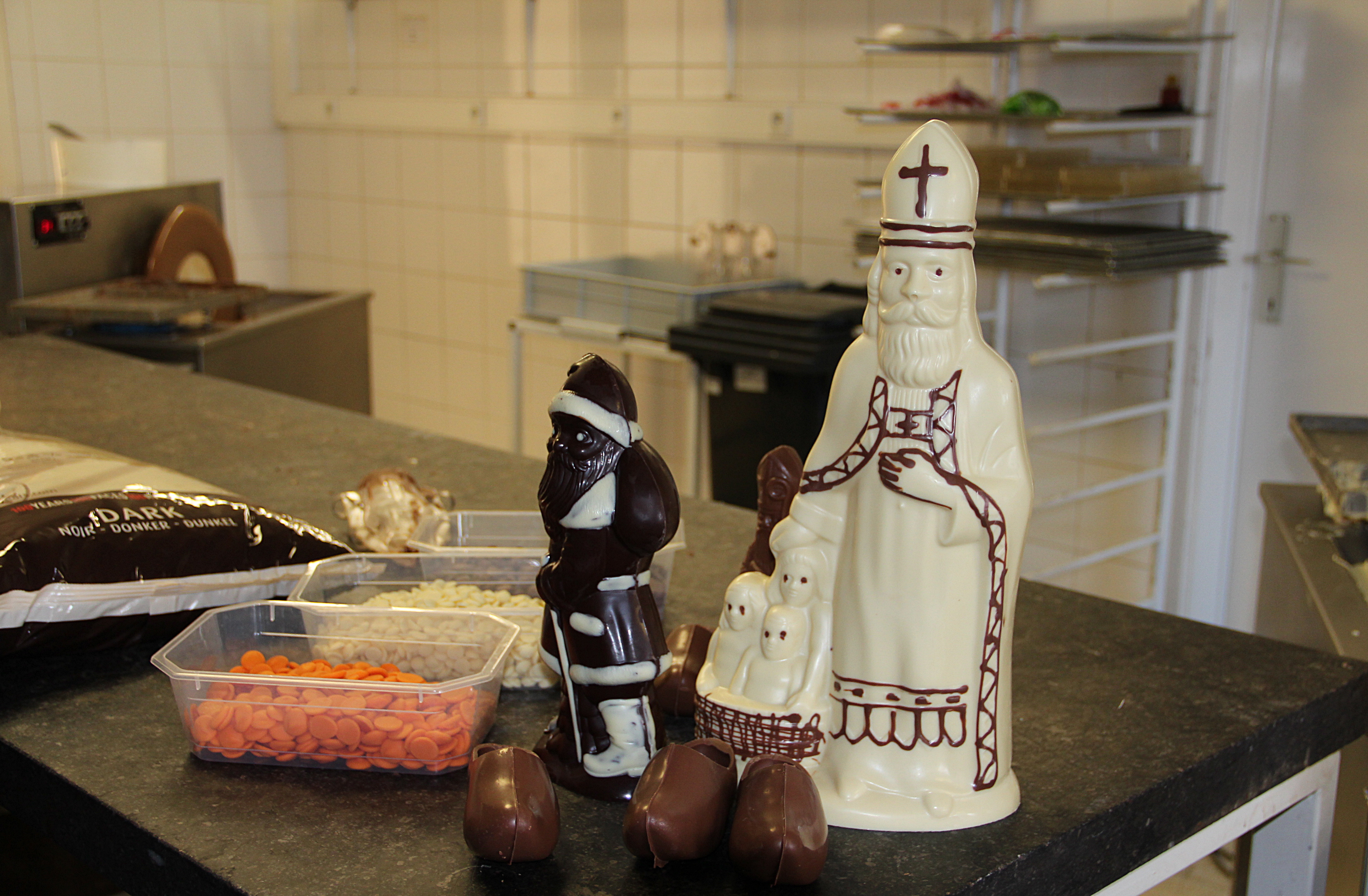 Hollow chocolate figures for Saint Nicolas and Christmas celebrations made by the Godefroid bakery in Frameries.